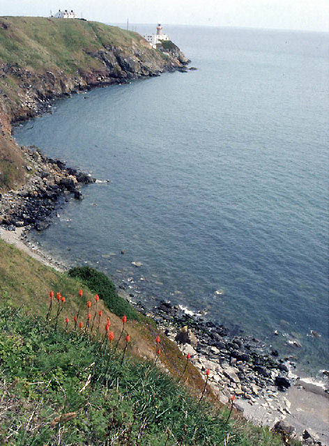 Baily Lighthouse, southern tip of the Howth Peninsula. In foreground red-hot pokers (Kniphofia), discarded by gardeners, grow "wild".